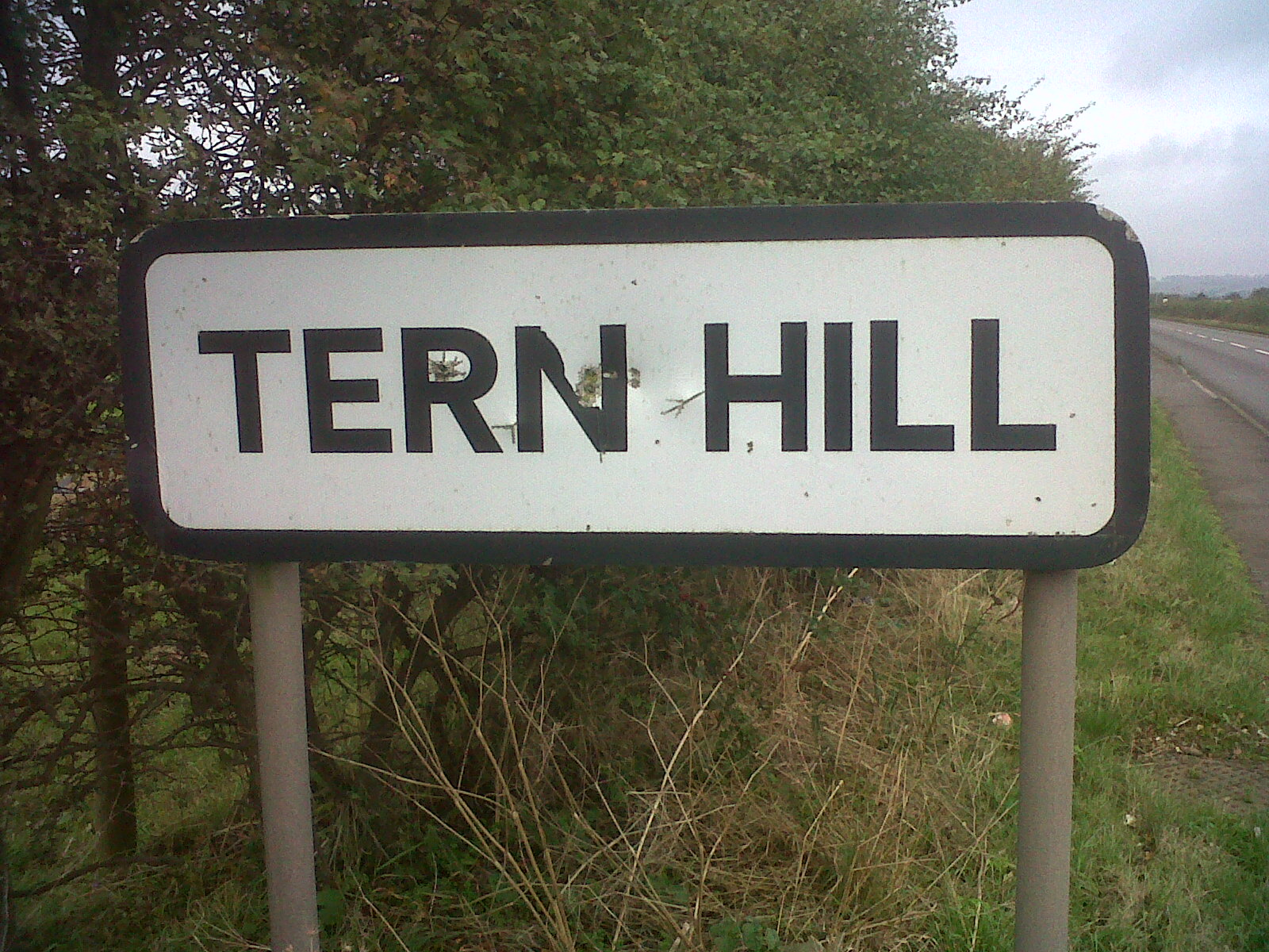 This image shows the Tern Hill road sign which is located along the A53 towards Market Drayton.